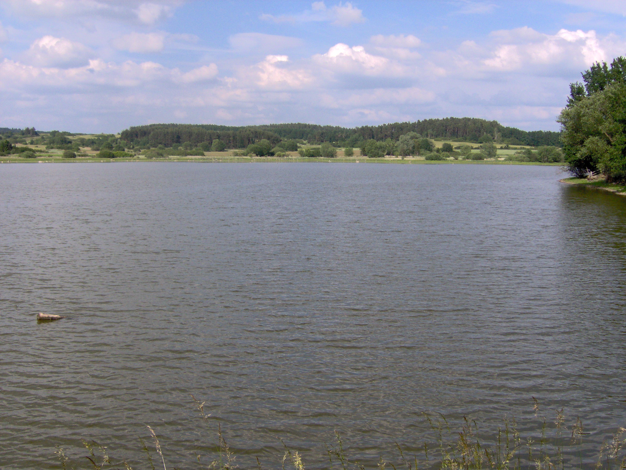 Mnichovsky pond in Mnichov, Strakonice District, Czech Republic